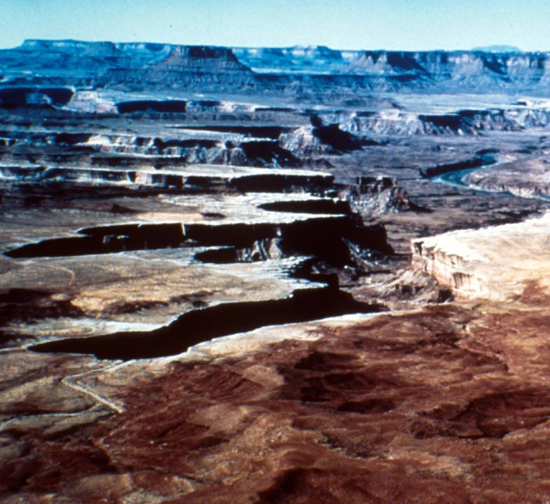 This image was cropped from an original that appears at: [1] The description of the original image reads as follows: Canyonlands National Park, Utah. Stillwater Canyon and Green River, looking southwest from Green River loop of river. Brown material covering nearby parts of the White Rim is the lower part of Overlook. Orange Cliffs in the background. Henry Mountains on the right skyline. Turks Head in the Moenkupi Formation. Figure 23, U.S. Geological Survey Bulletin 1327. Survey Bulletin-1327 Digital File:lsw00008 ID. Lohman, S.W. 8ct The original photo apparently was taken from Grand View Overlook in the park, probably in the early 1970s. A description of the publication in which the original was published in 1974 appears at [2]. The original was edited to focus on the smaller "theater-headed" canyons at left. The edited image was uploaded for use with the article entitled Groundwater sapping.